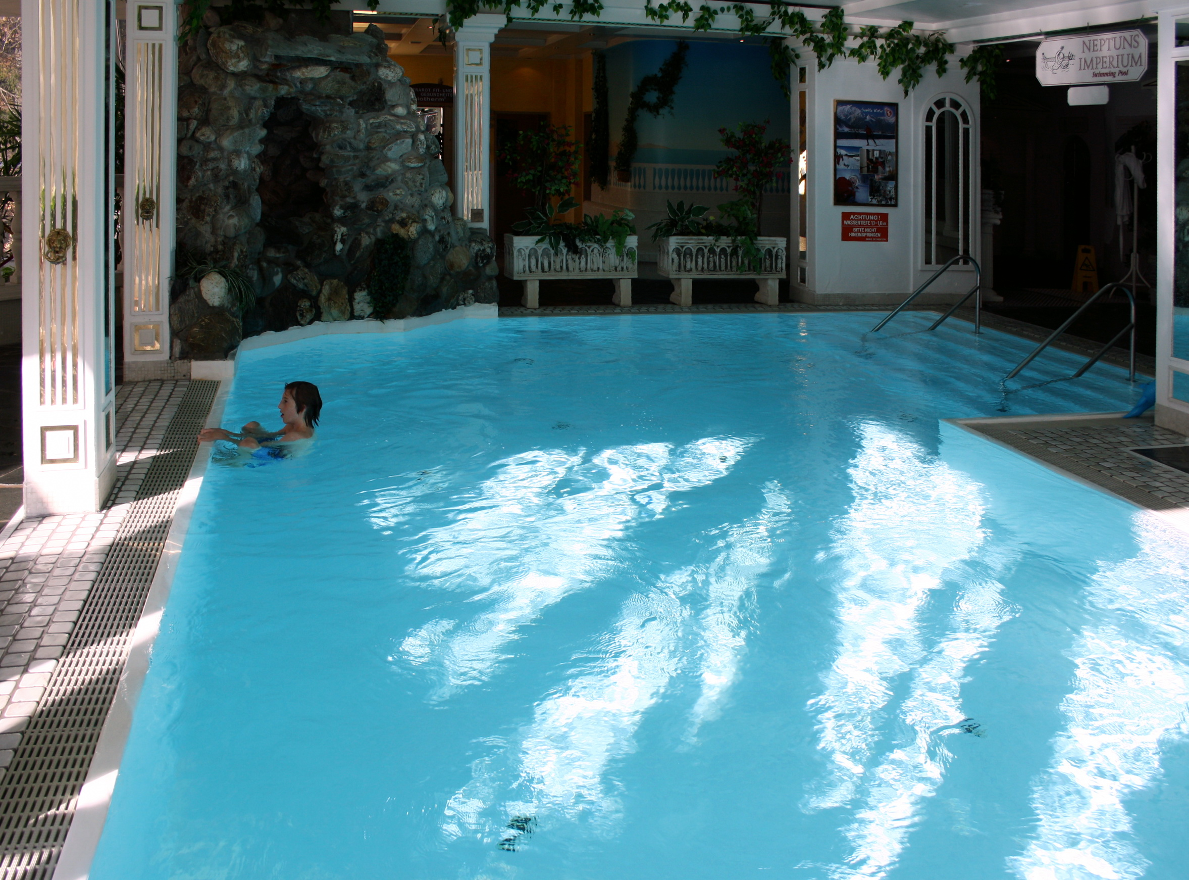 Swimming pool in Bad Gastein in a hotel.